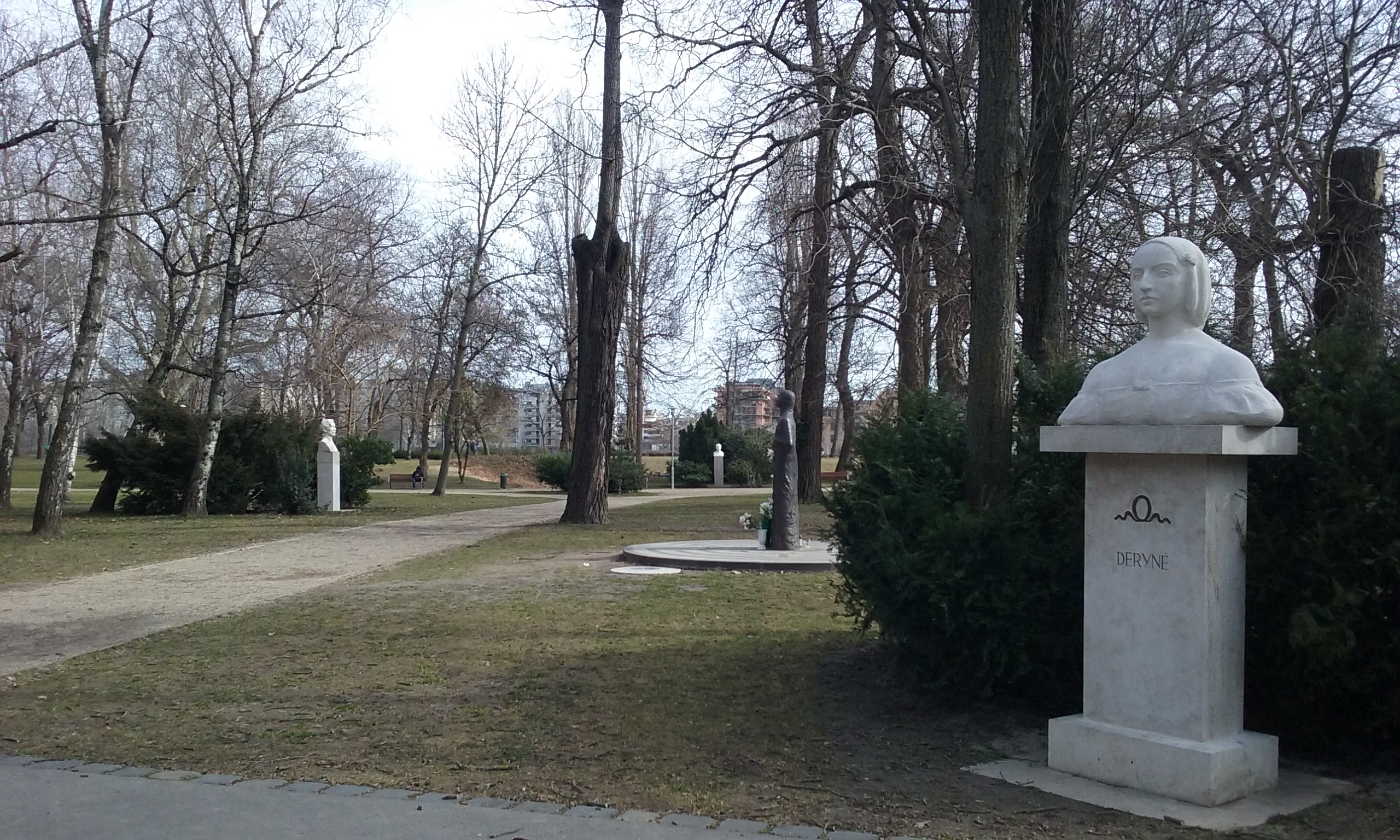 Statues on Margaret Island, Budapest, Hungary in 29 February 2020